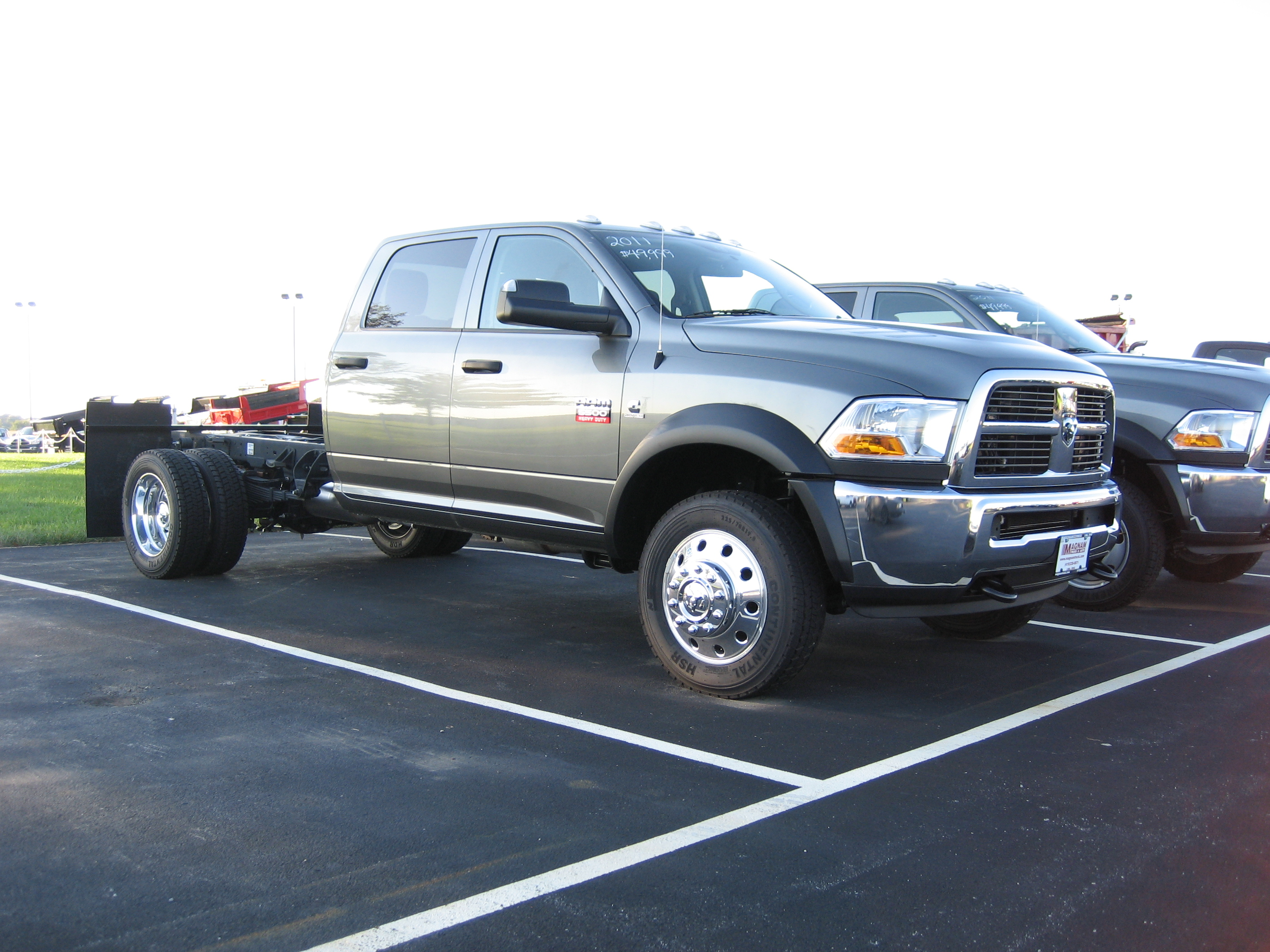 A late model, 2011 Ram 5500 truck.